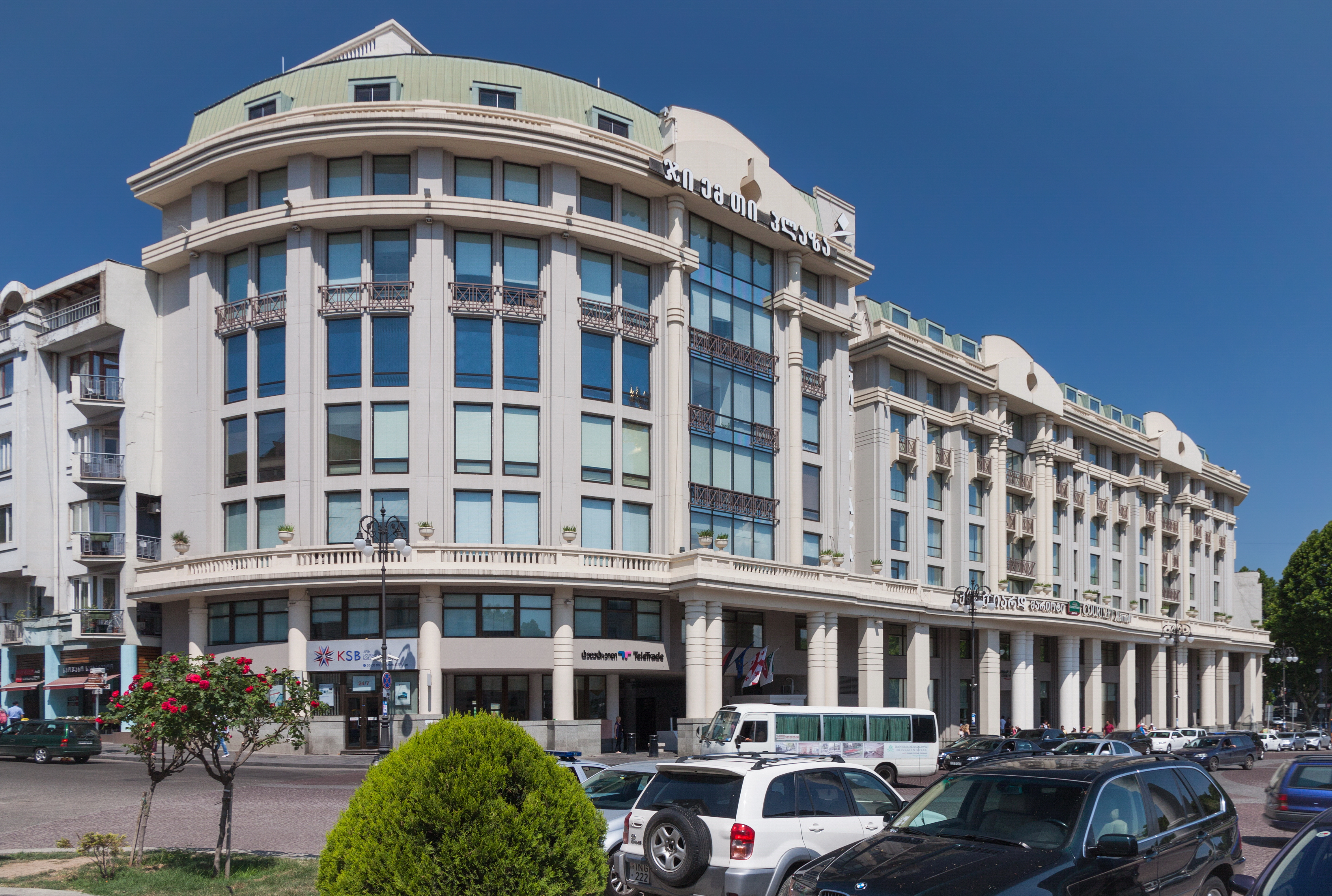 Courtyard Marriott. Tbilisi, Georgia.